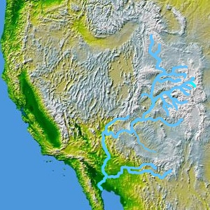 The Blue River in Colorado. © 2004 Matthew Trump